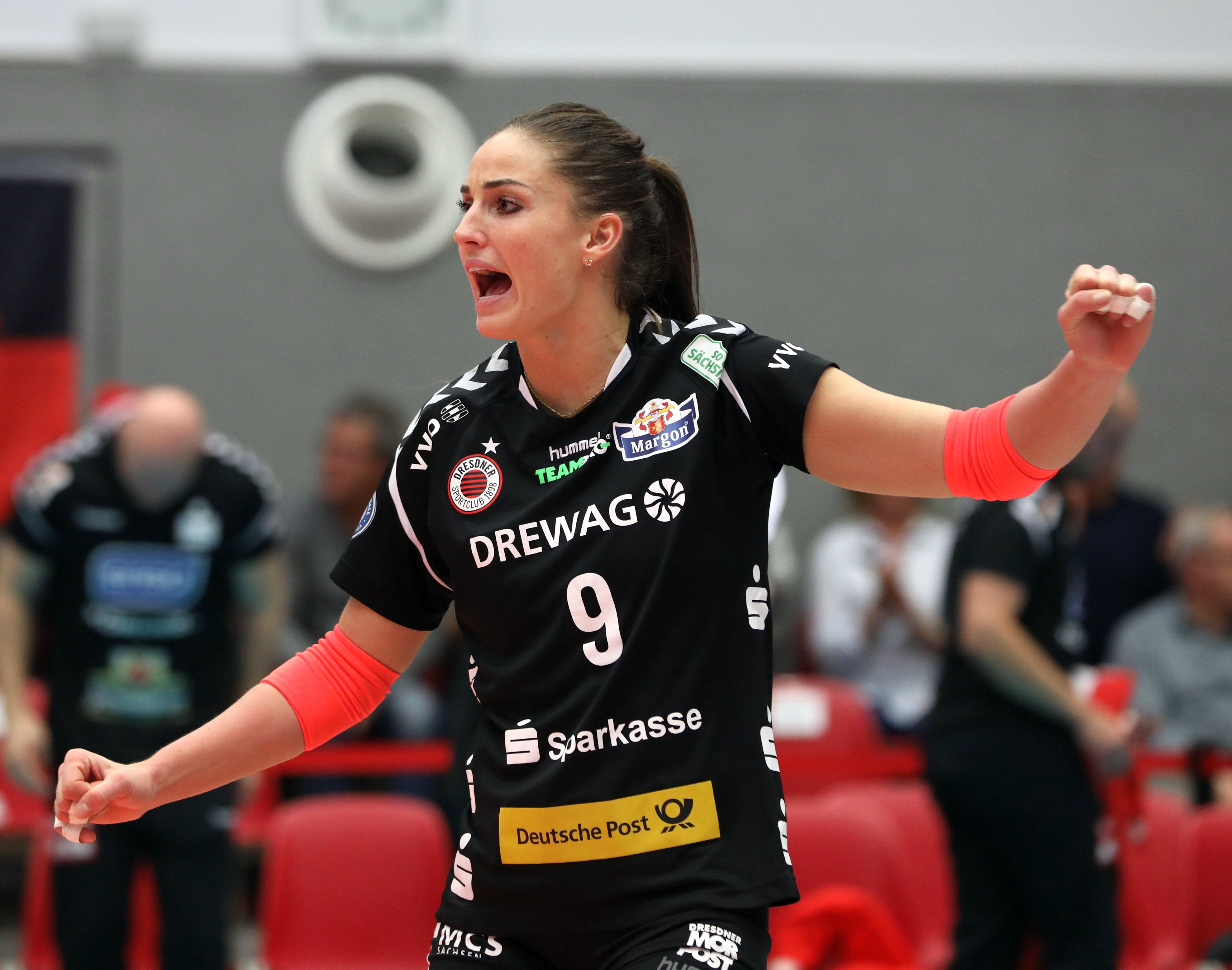 Myrthe Schoot (Dresdner SC) at the game of the Dresdner SC vs. SSC Palmberg Schwerin (3:2; 20:25, 25:7, 21:25, 27:25, 15:13) at the 6th December 2017)